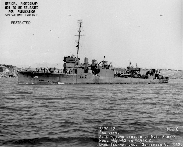 USS John D. Edwards (DD 216) departing Mare Island on 9 September 1942. She was in overhaul at the yard from 26 August to 9 September 1942.